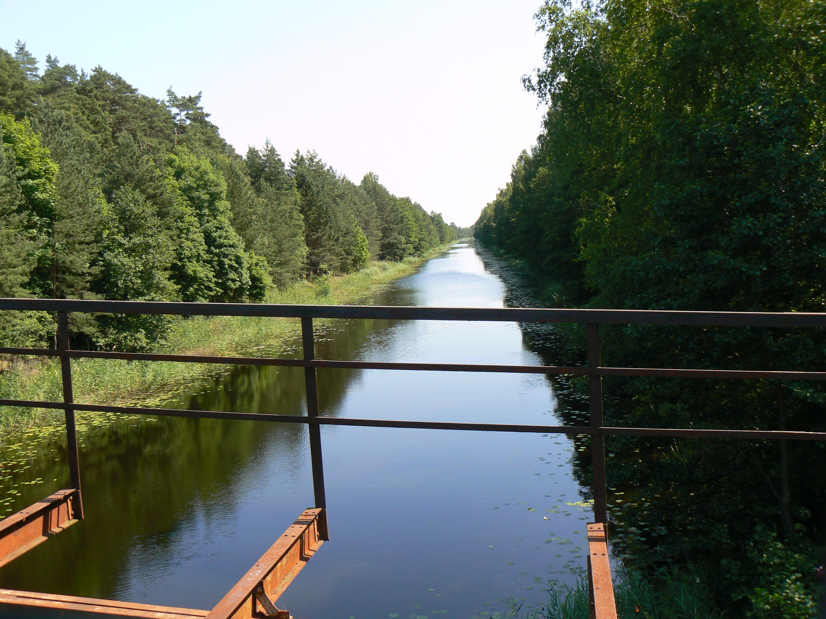 Channel of William I from a Bridge. View to South. Česky: Vilémův kanál. Pohled z druhého mostu směrem k Dreverně (k jihu).